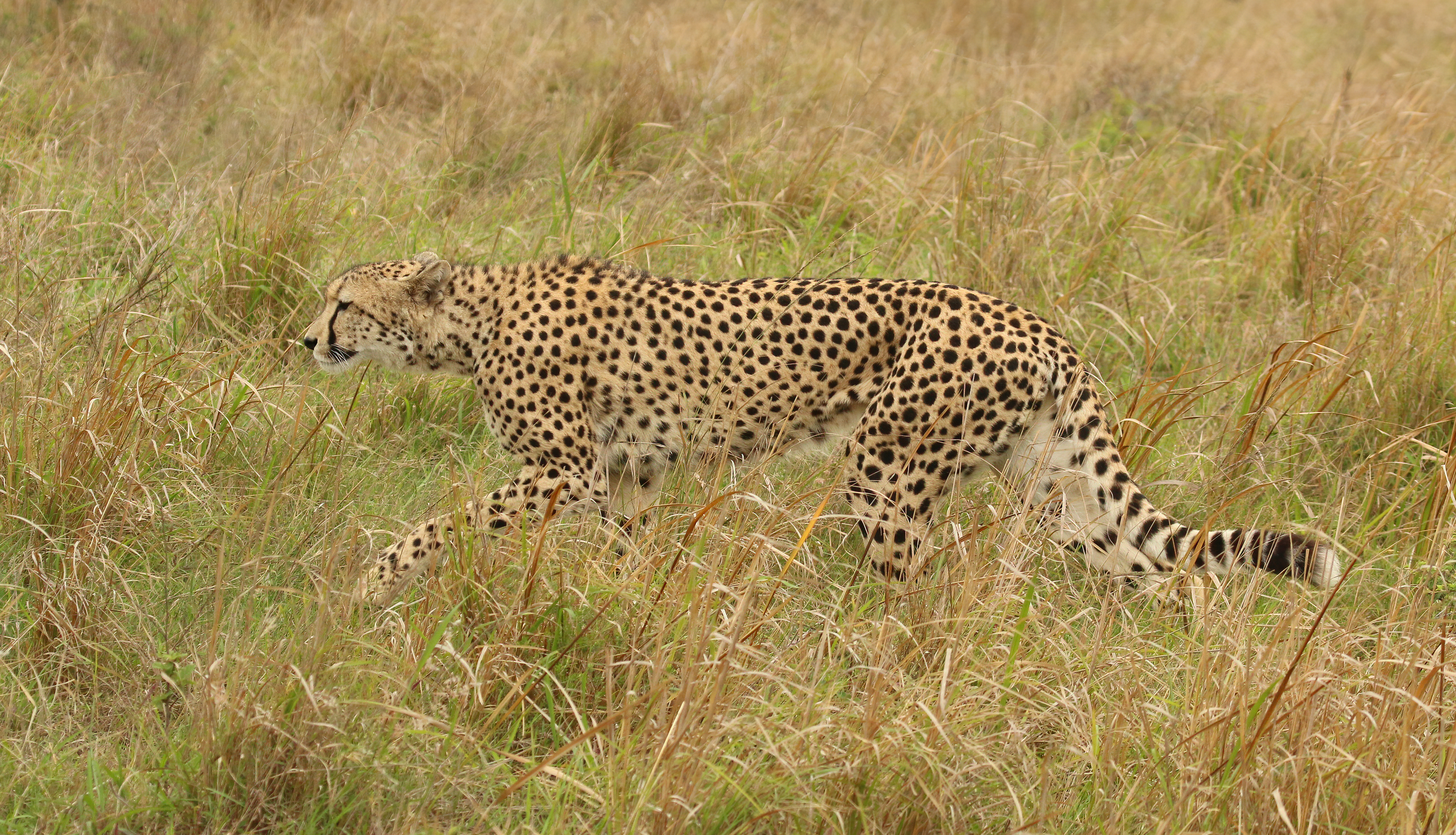 Cheetah (Acinonyx jubatus) female after chase, Phinda Private Game Reserve, South Africa